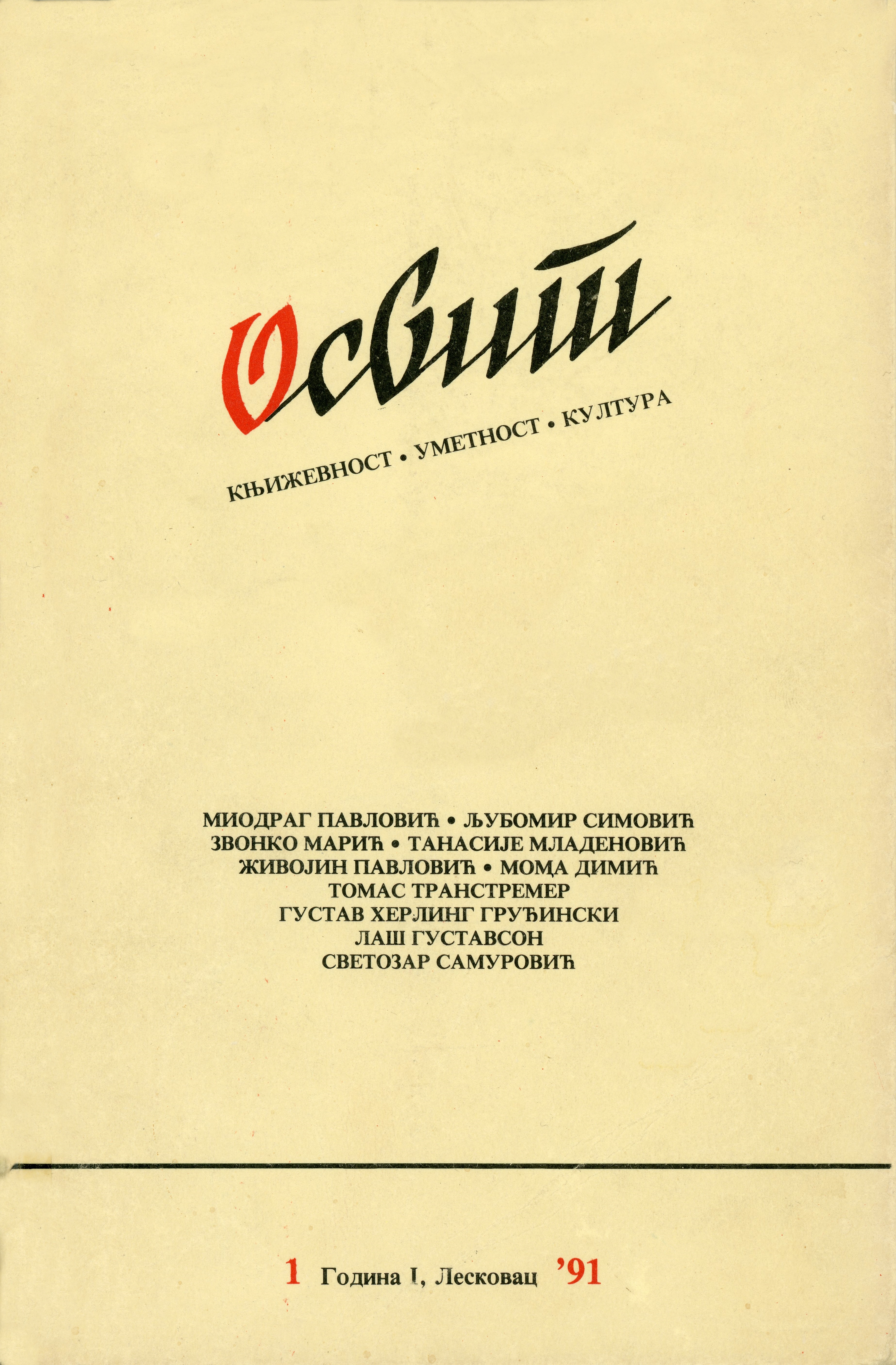 Cover of journal Osvit, Leskovac, Serbia, 1991